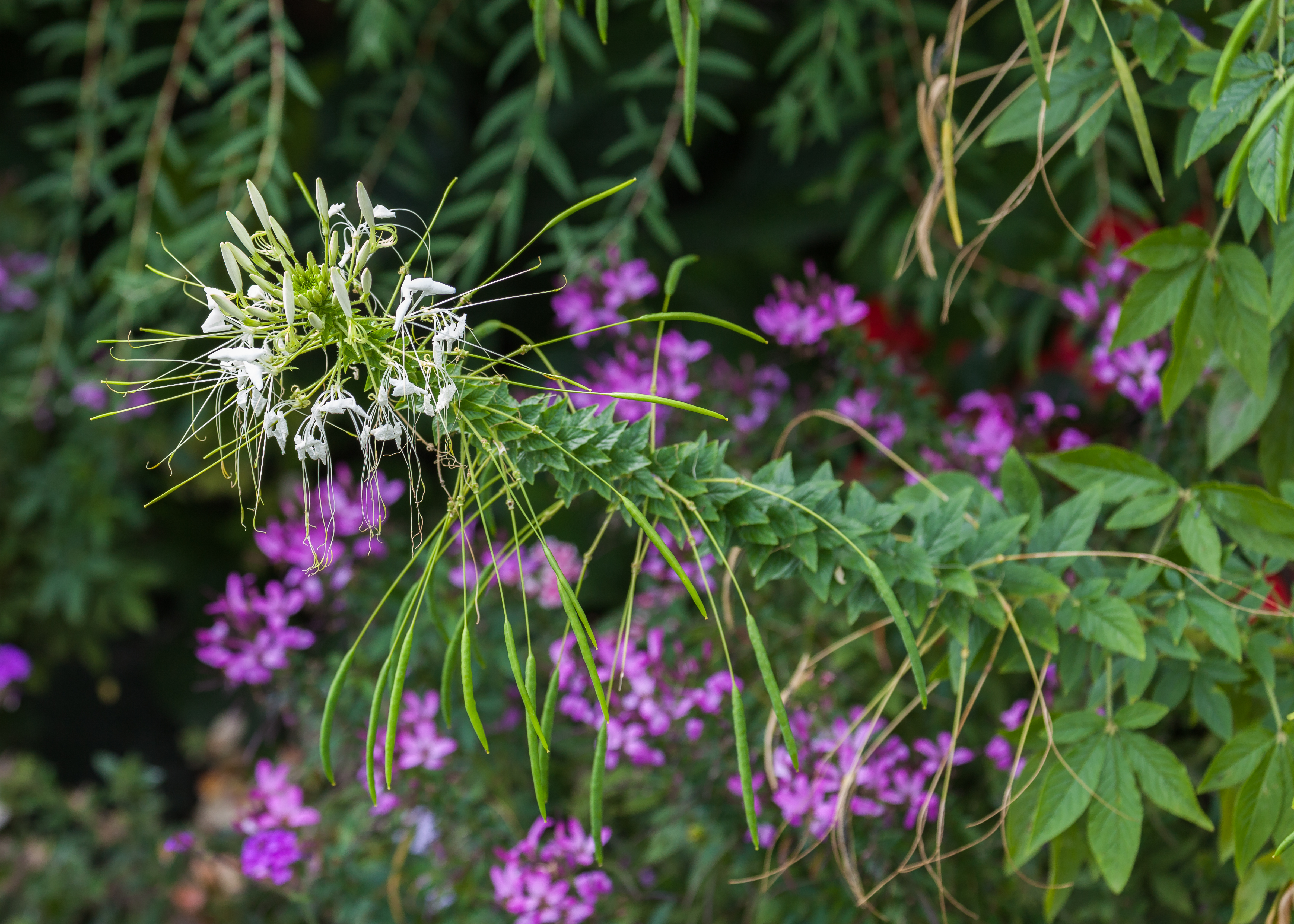 Spider Flower (Cleome spinosa), Munich Botanical Garden, Germany